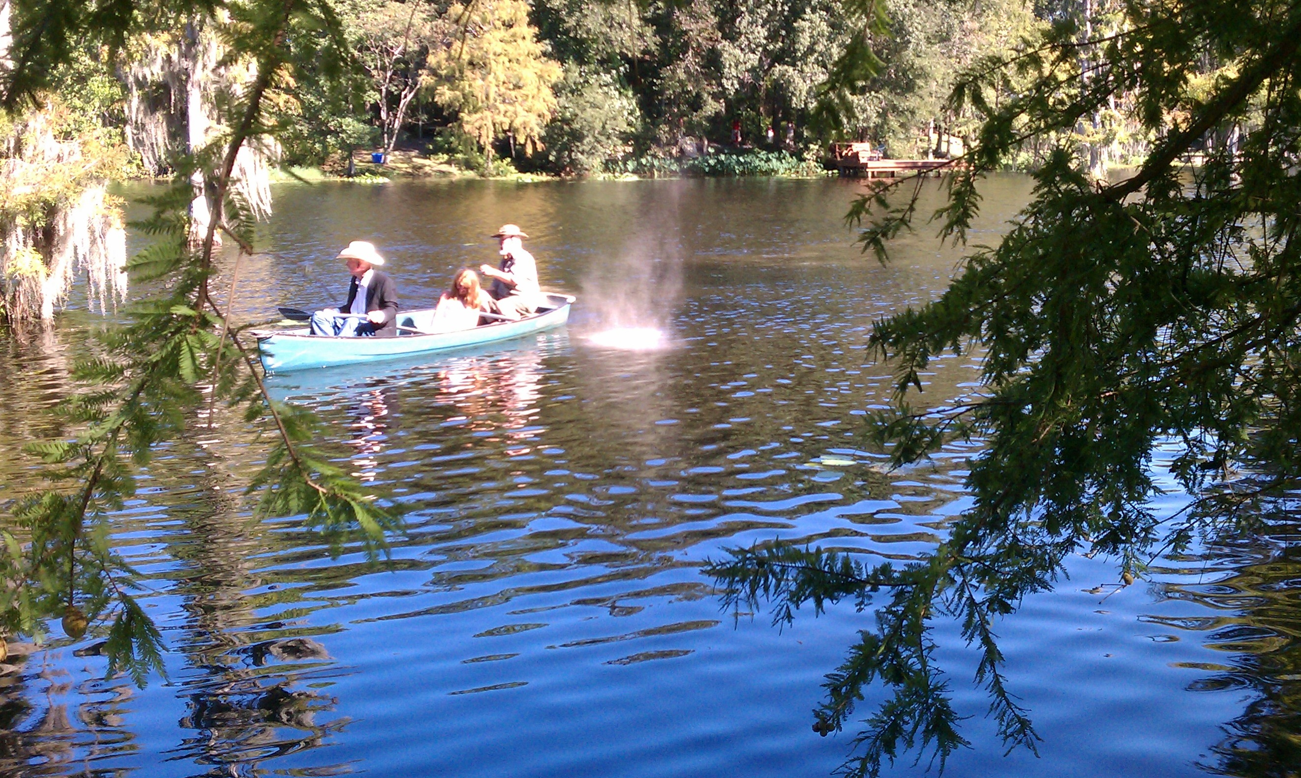 Stetson Kennedy’s ashes are spread at the end of his memorial service onto Beluthahatchee Lake by his daughter, Jill Bowen.